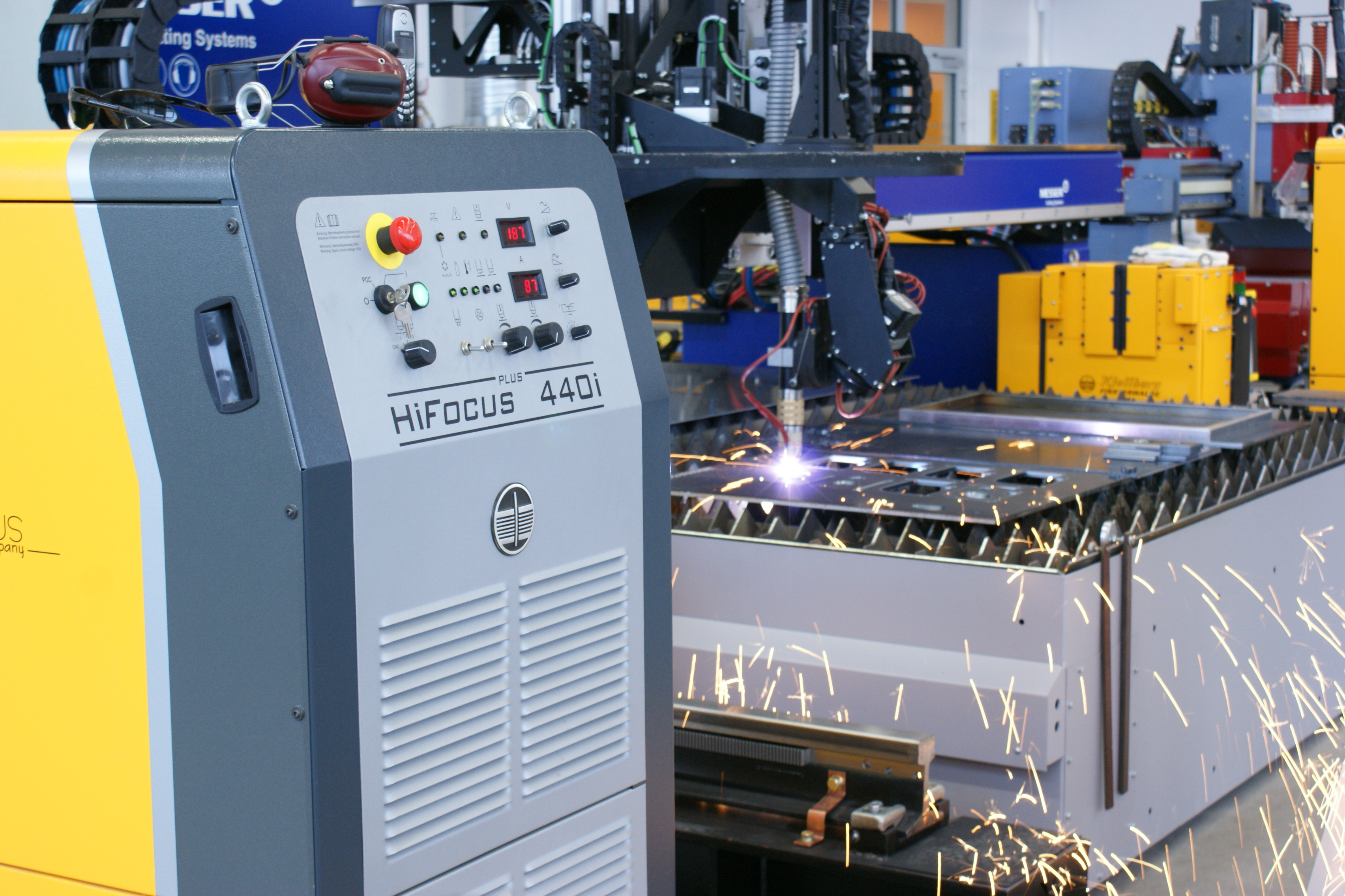 Plasma cutting unit in operation